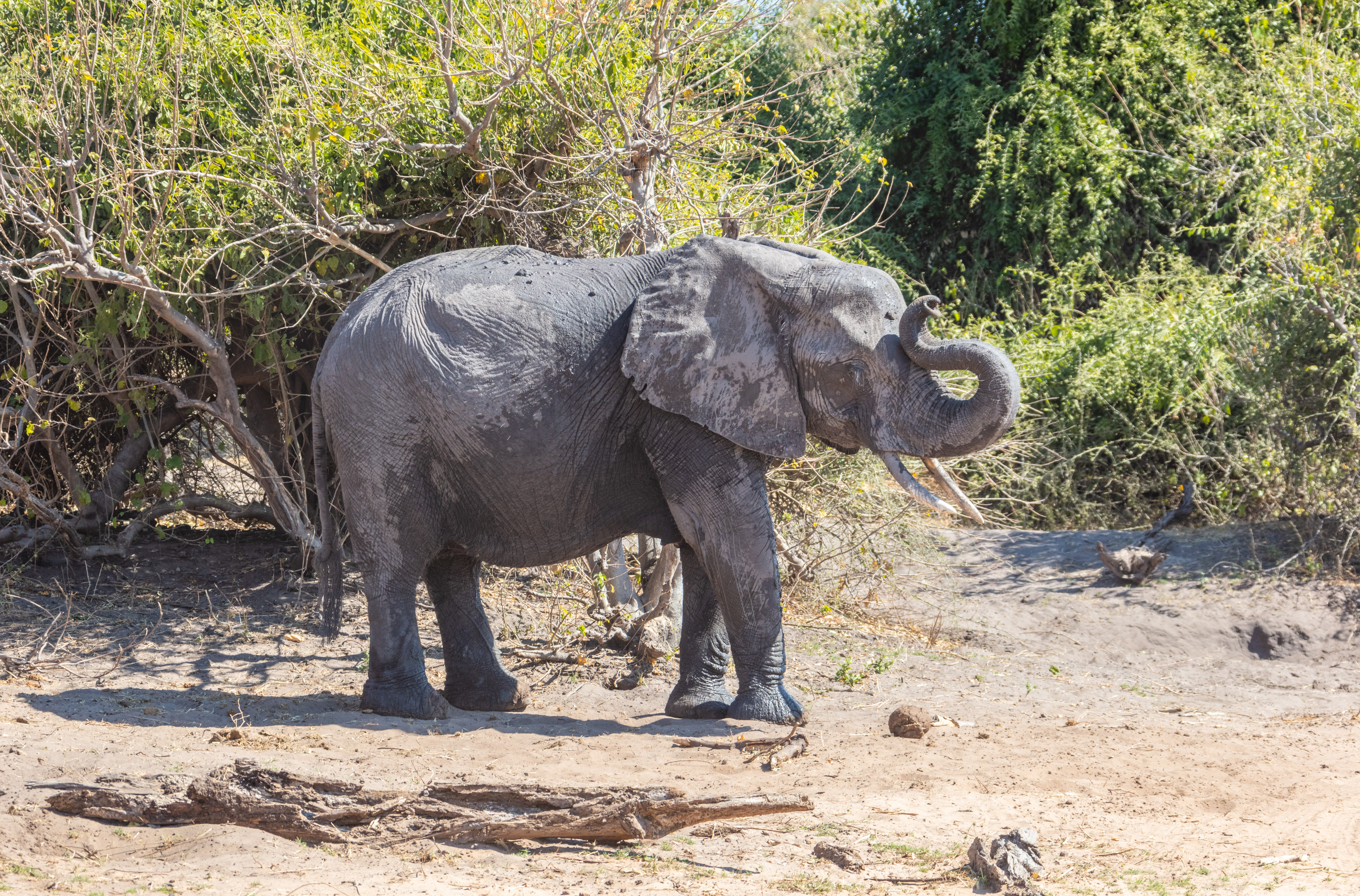 Baby African bush elephant (Loxodonta africana), Chobe National Park, Botsuana